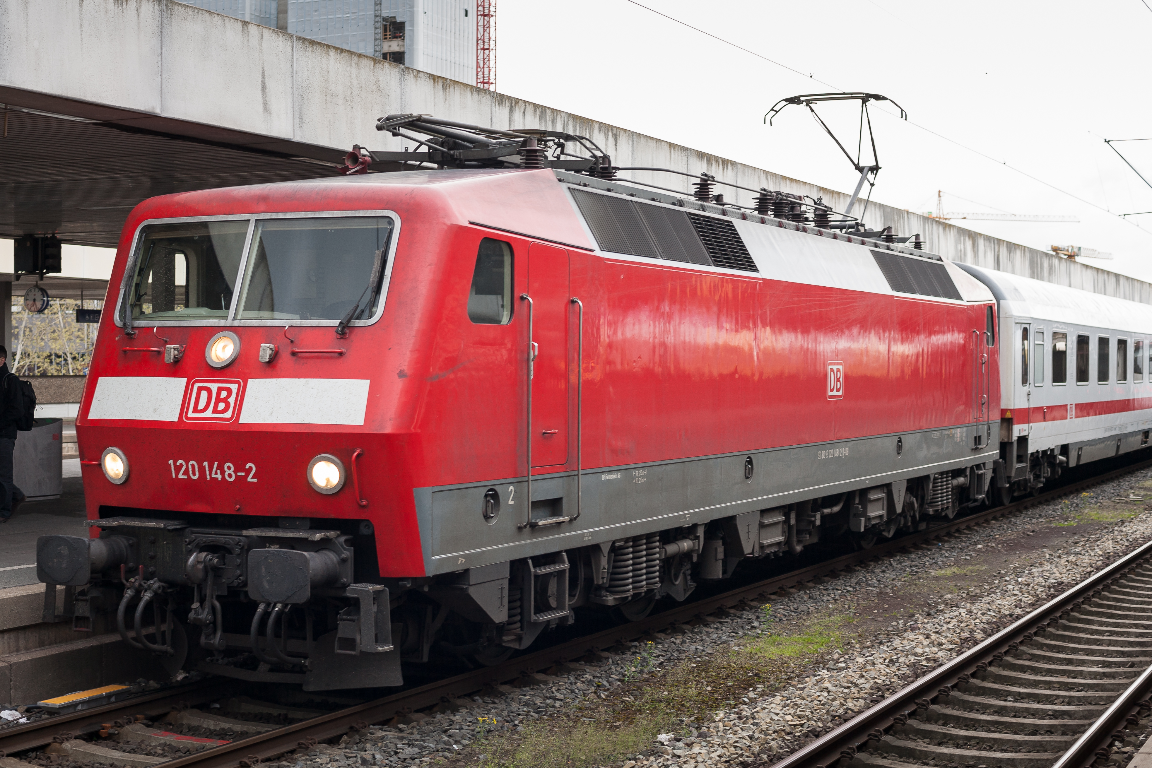 DB class 120 no. 148 in front of an InterCity train waiting at Hanover main station.